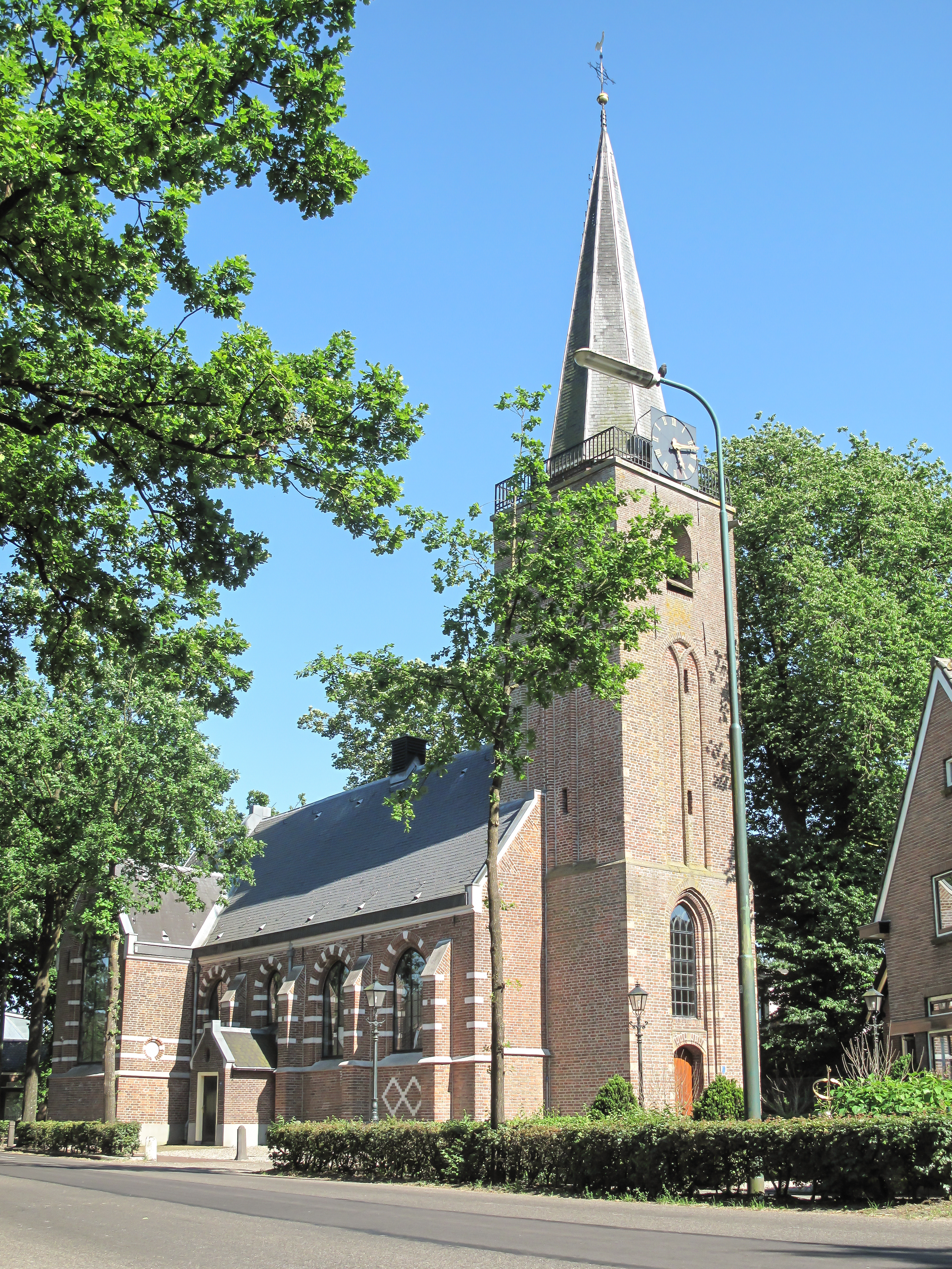 Maartensdijk, reformed church